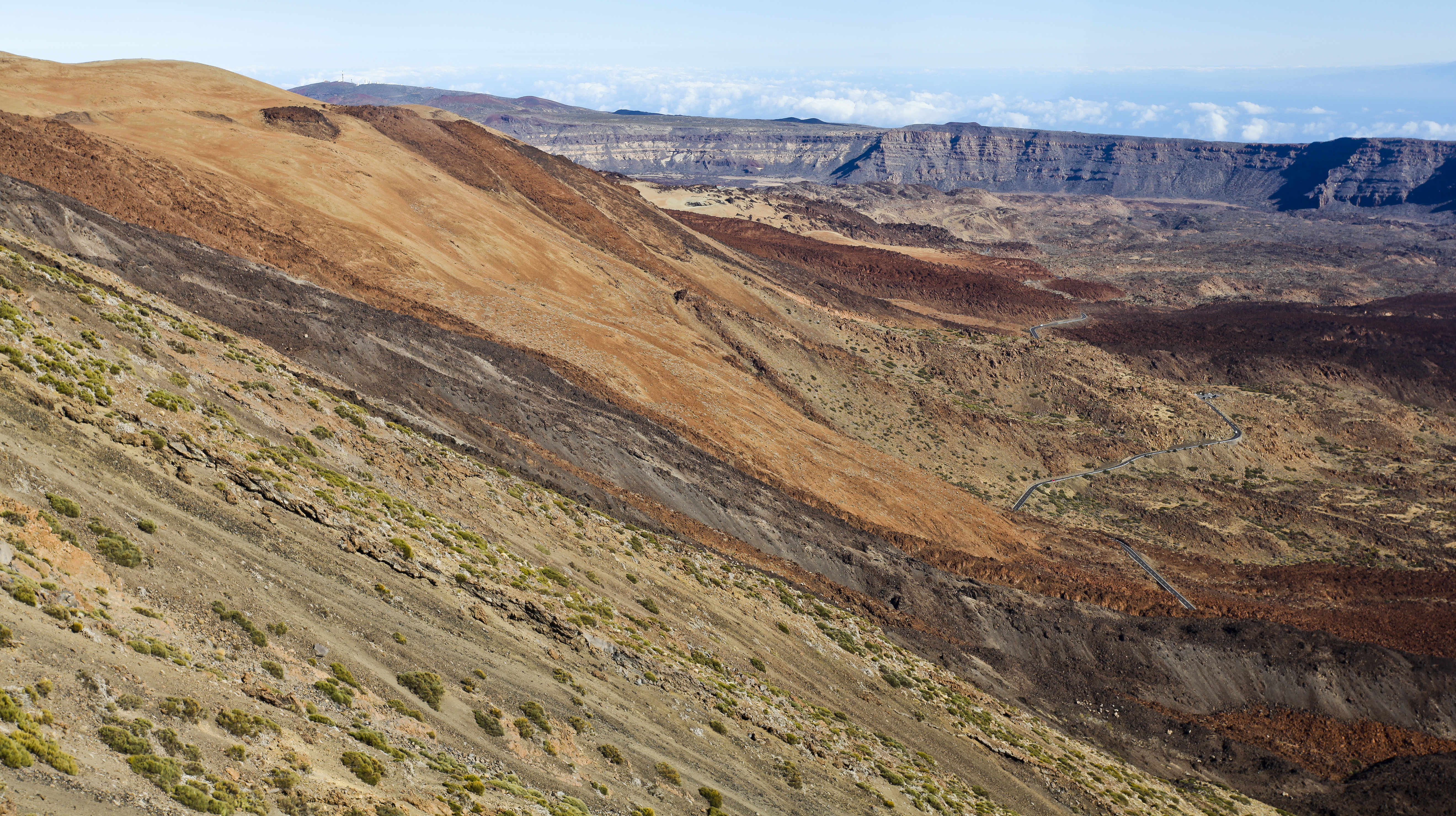 Caldera de las Cañadas, National Park of Teide, Santa Cruz de Tenerife, Spain